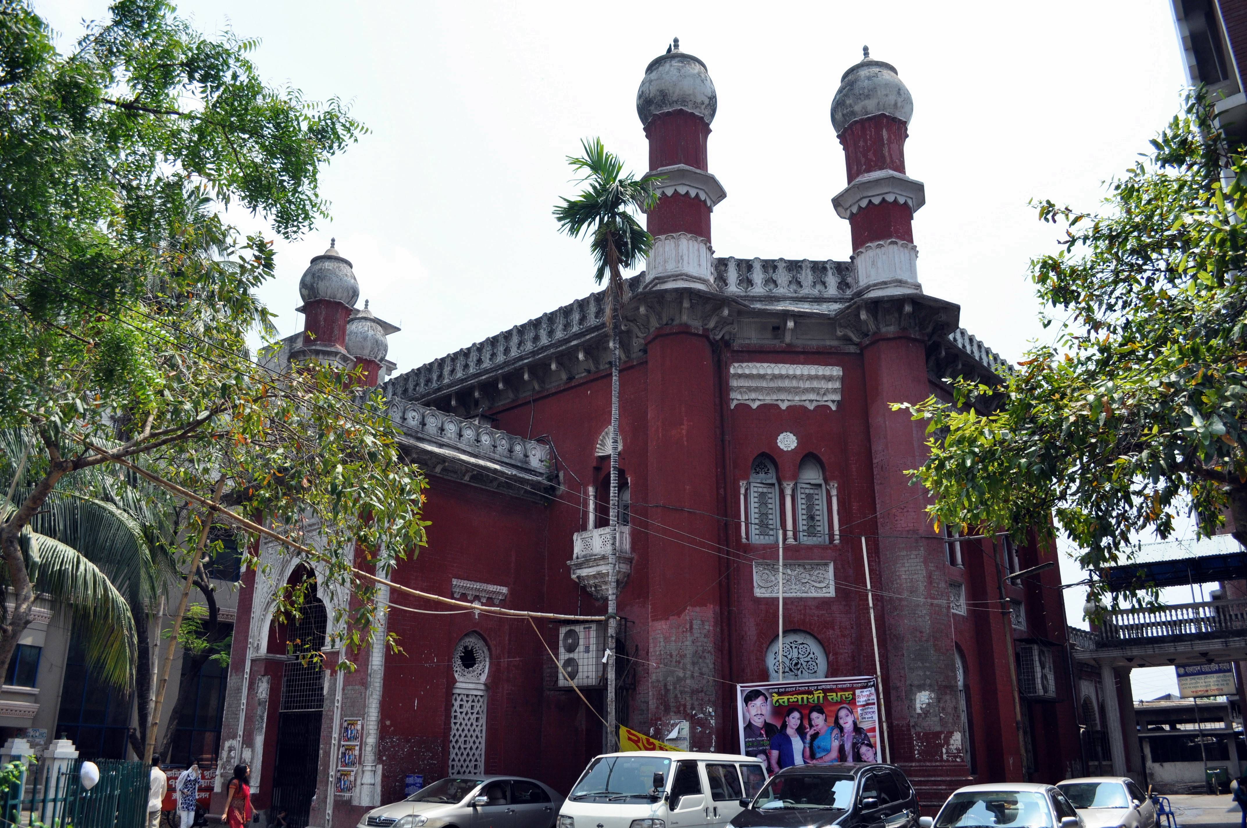 fountain